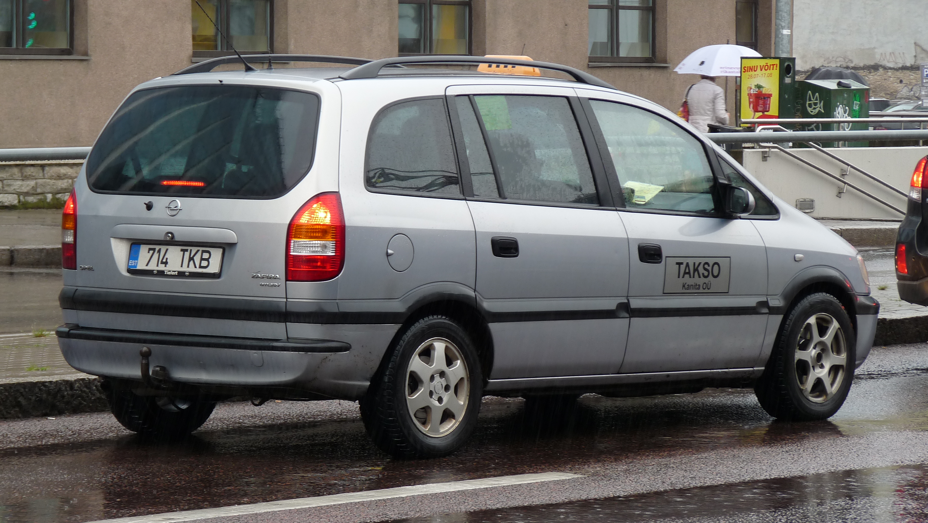 Taxi in Tallinn, Estonia